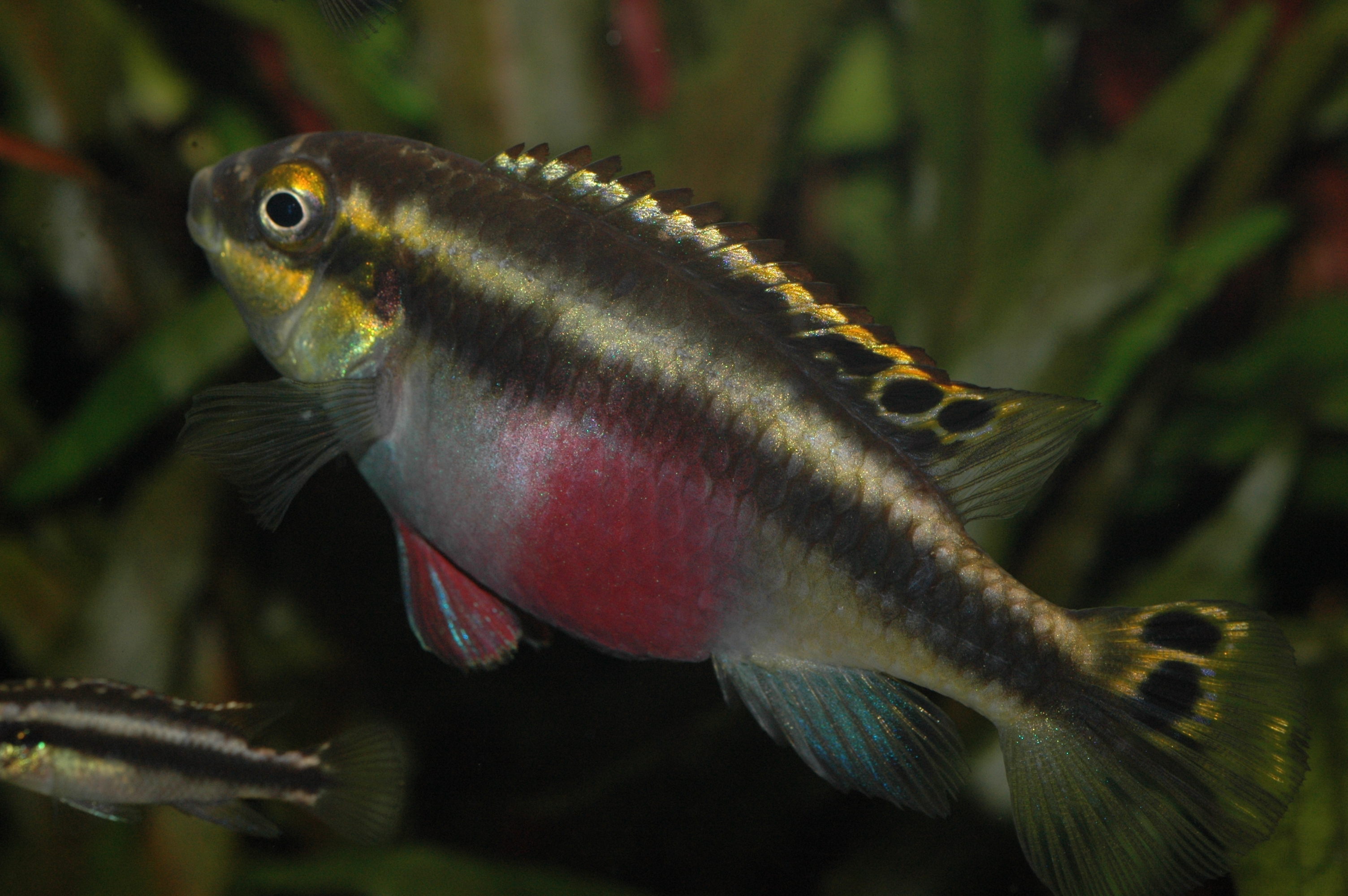 Pelvicachromis pulcher, adult female